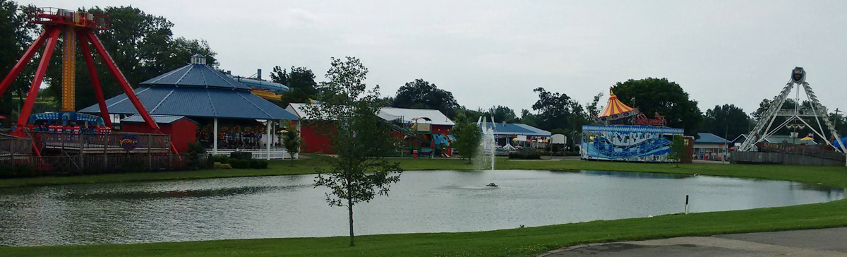 A panoramic view of Beech Bend Park in Bowling Green, Kentucky